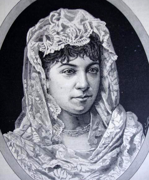 Engraved portrait of opera singer Elena Teodorini (1854-1926)